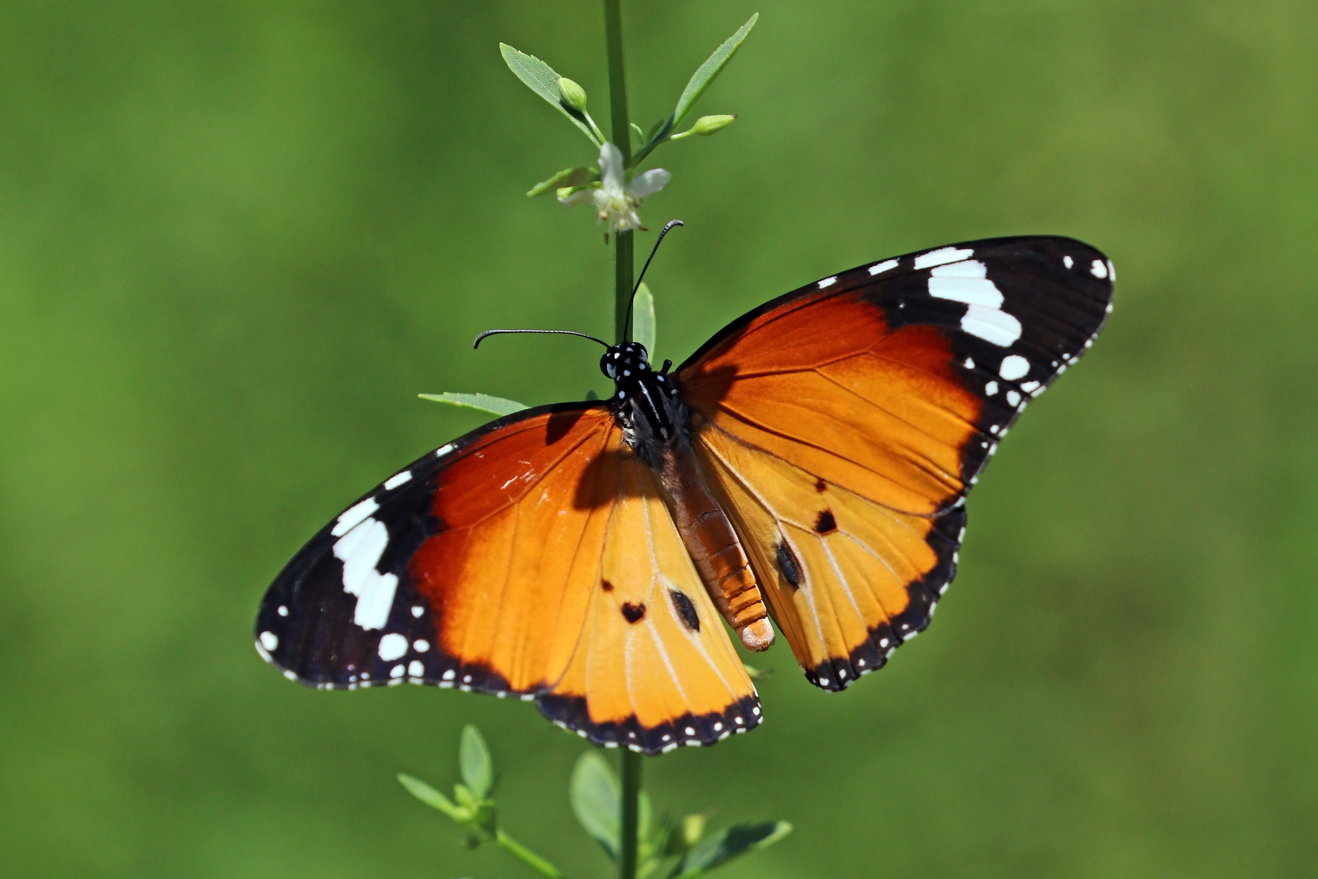 African monarch (Danaus chrysippus orientis), Tsara Komba, Madagascar